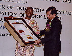 The chairman of Codewit Global network, Mr. Anthony Claret Onwutalobi (left) and the Deputy Chief Minister of Sarawak, George Chan (right) during the opening ceremony of the first African Convention (involving 15 African countries) held by African Students Association of INTI College Sarawak at Mary'ek hall, Kuching, Sarawak, Malaysia in 2005.